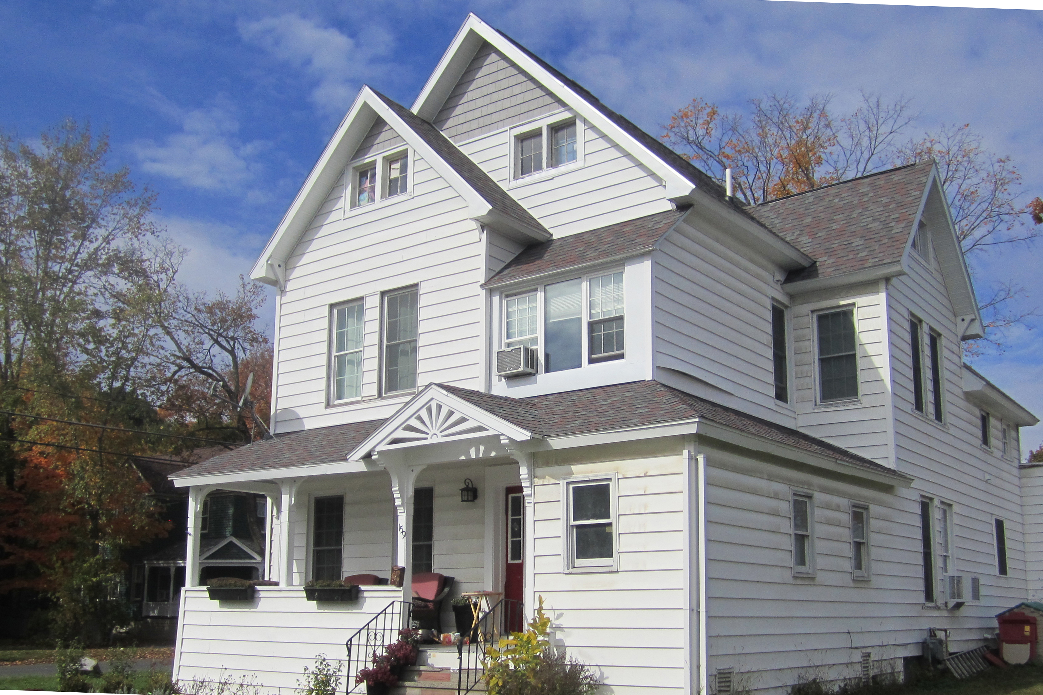 159 Division St., Saratoga Springs NY. Designed by R. Newton Brezee for William R. Waterbury, 1884